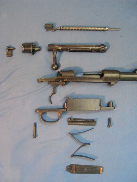 Partially disassembled Mauser Karbiner 98k action, with receiver in the middle, magazine well and magazine assembly below and disassembled bolt on top.